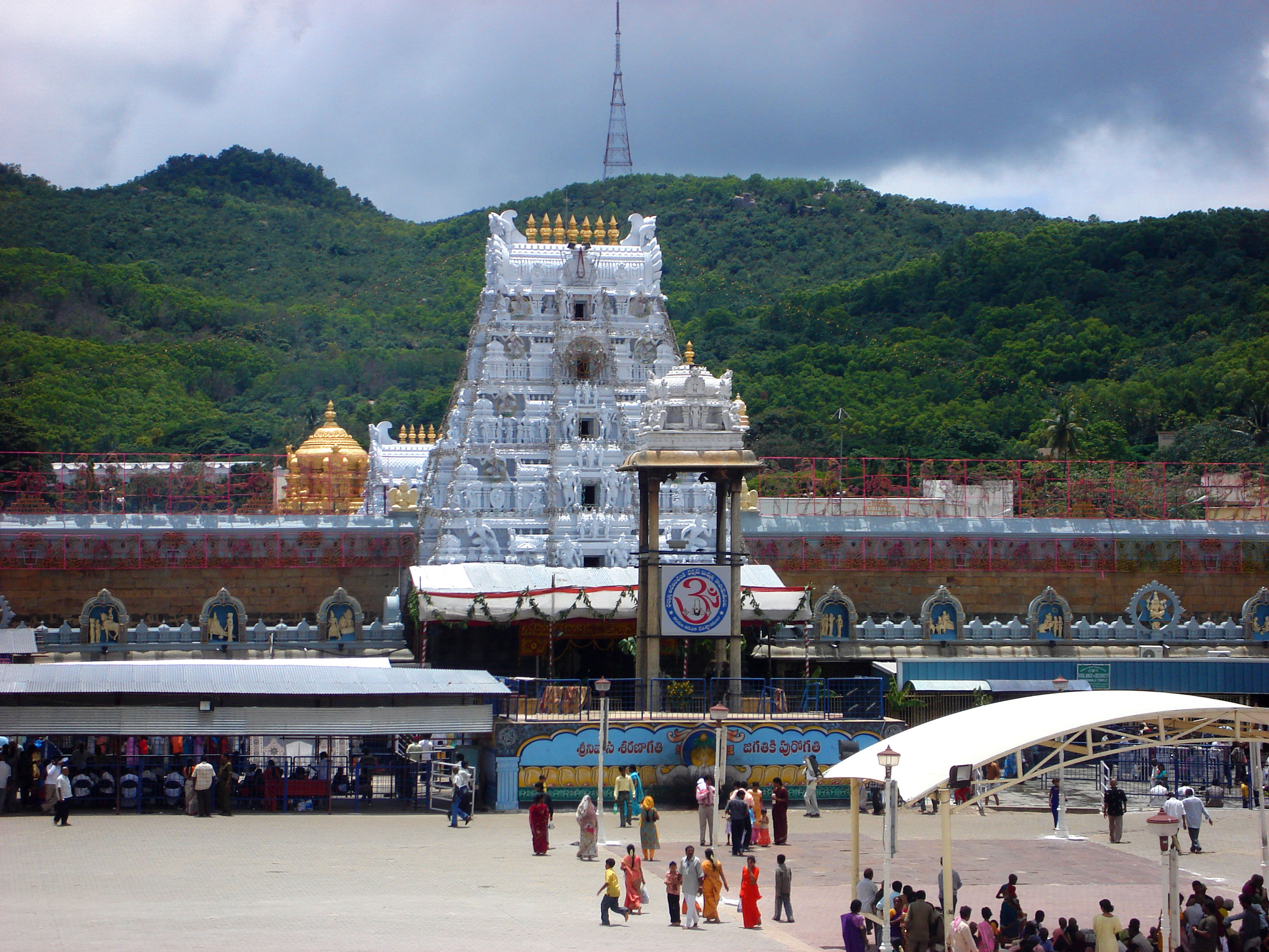 The main temple of Tirumala. The yellow shrine visible is completely made of gold